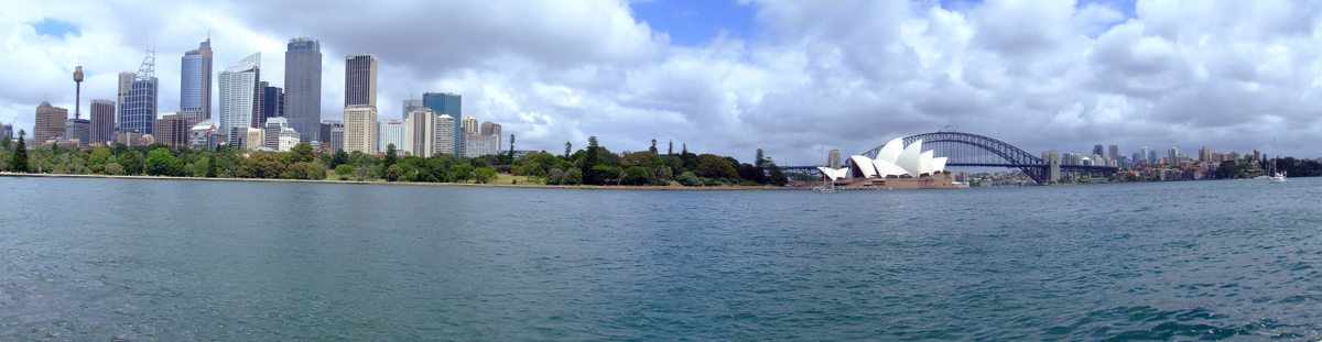 Sydney Harbour Bridge and the Sydney Opera House seen from Mrs Macquaries Point. Kirribilli on the right. The botanical garden to the left with the Skyline of the Central Business District in the Background. Panorama stitched from 7 Shots. Taken by me with a Fuji Finepix S5600 on January the 7th 2006 at 11:33am local time. Category:Images of Sydney